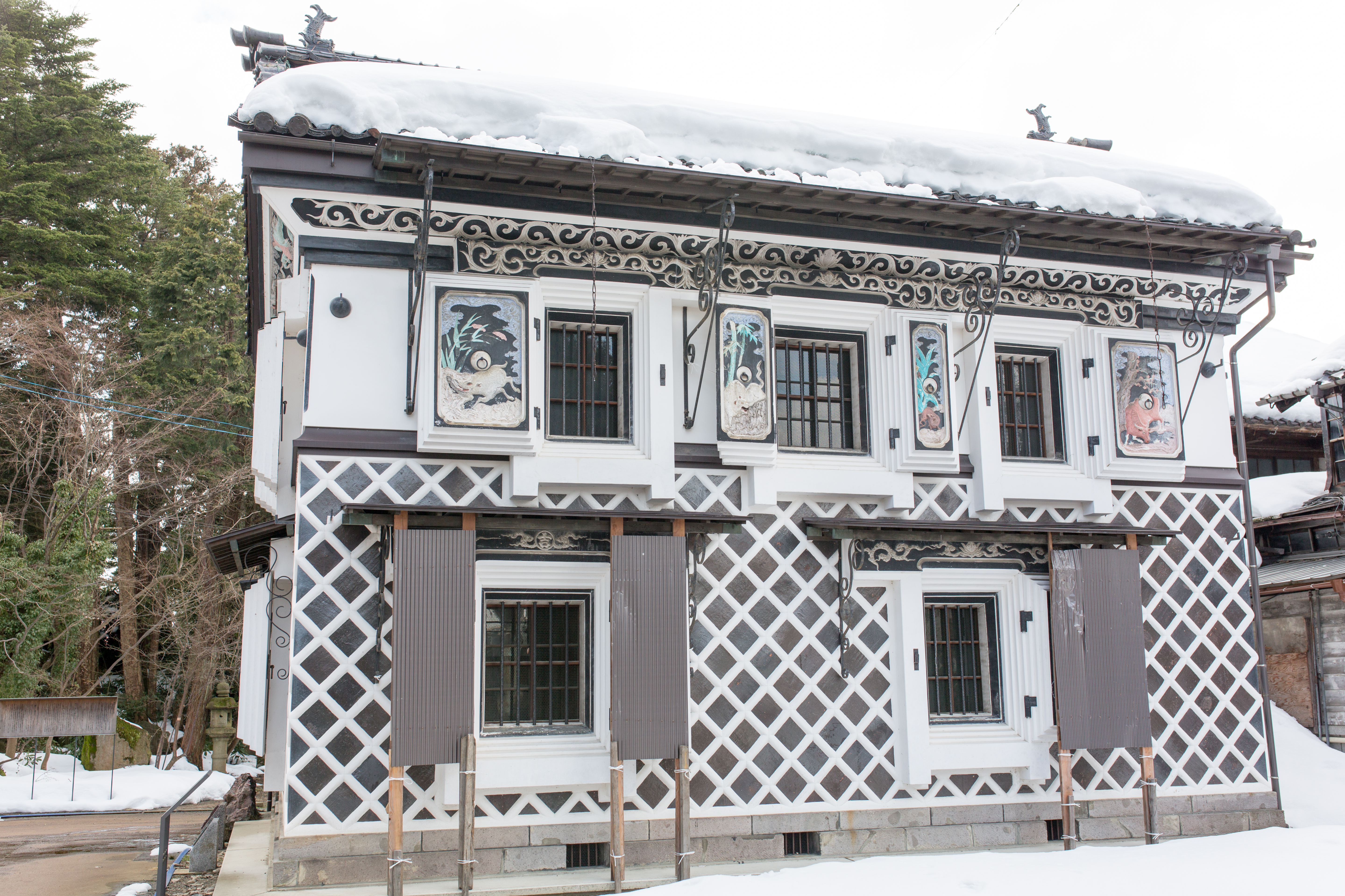 Warehouse of Quina Saffron Winery (Kina Saffron-syu Seizo Honpo) decorated with Kote-e, Nagaoka, Niigata Prefecture, Japan